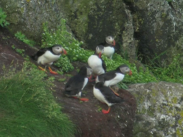 Atlantic Puffin, Lundy